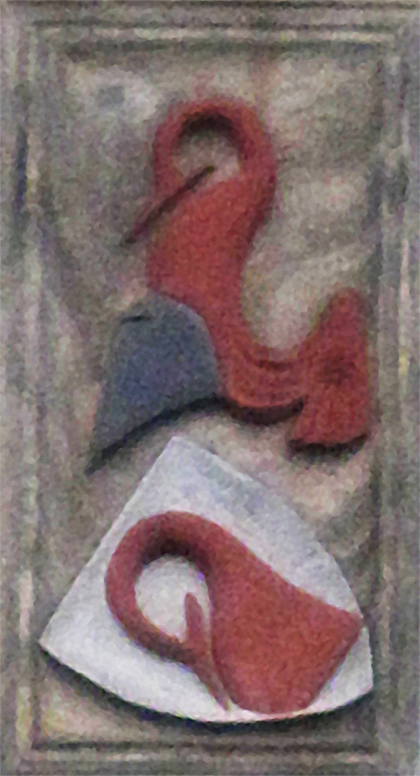 Coats of arms of Bishop Lamprecht von Brunn. Relief on Burg Forchheim.